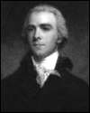 William Wyndham Grenville, 1st Baron Grenville